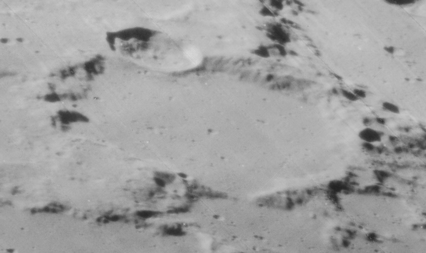 Oblique view of Barrow crater, facing northwest, on the moon.